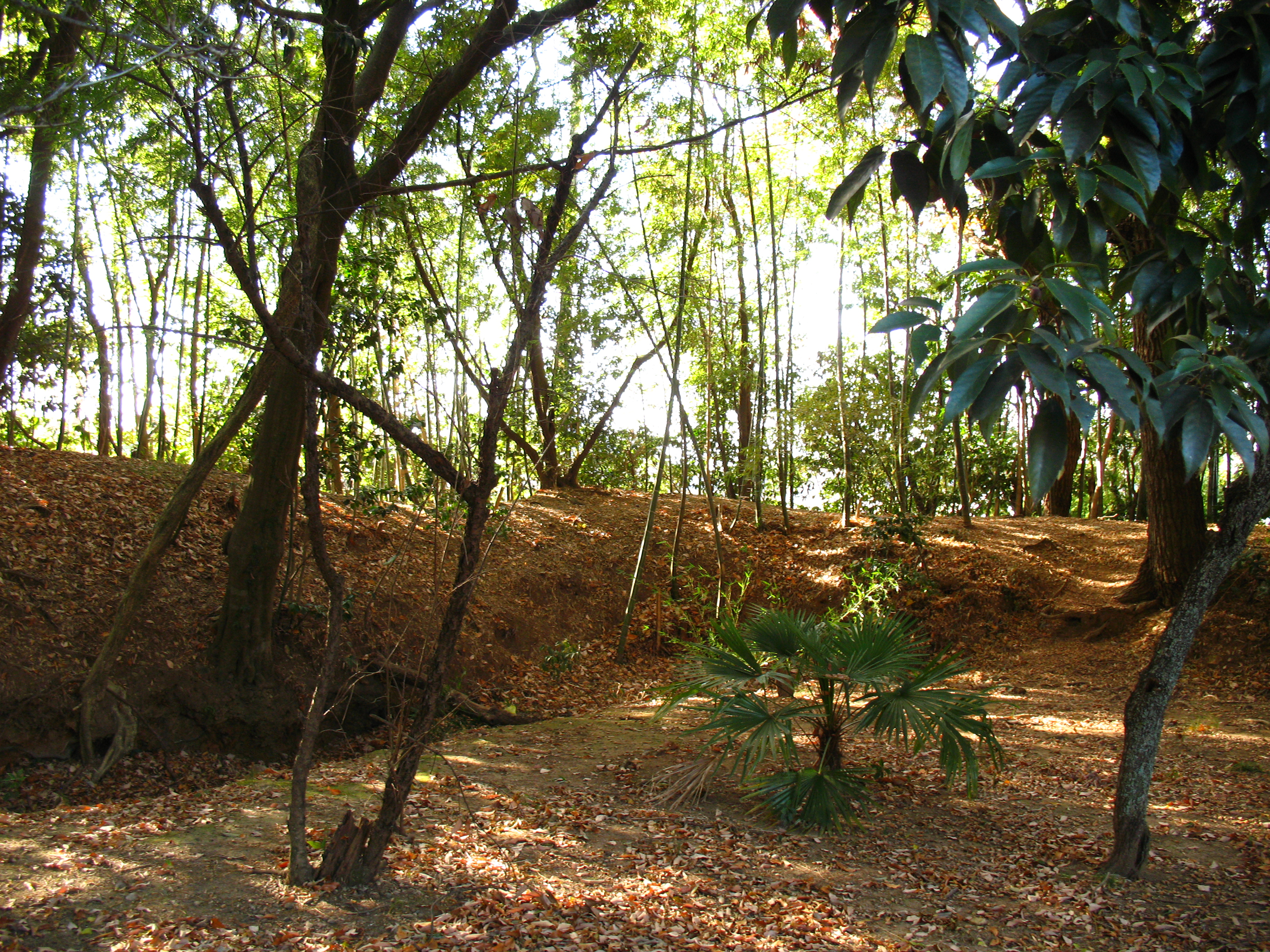 Corner of Oguchi Park, once the corner of the hon-maru of Nirengi Castle. Earthern ramparts visible.